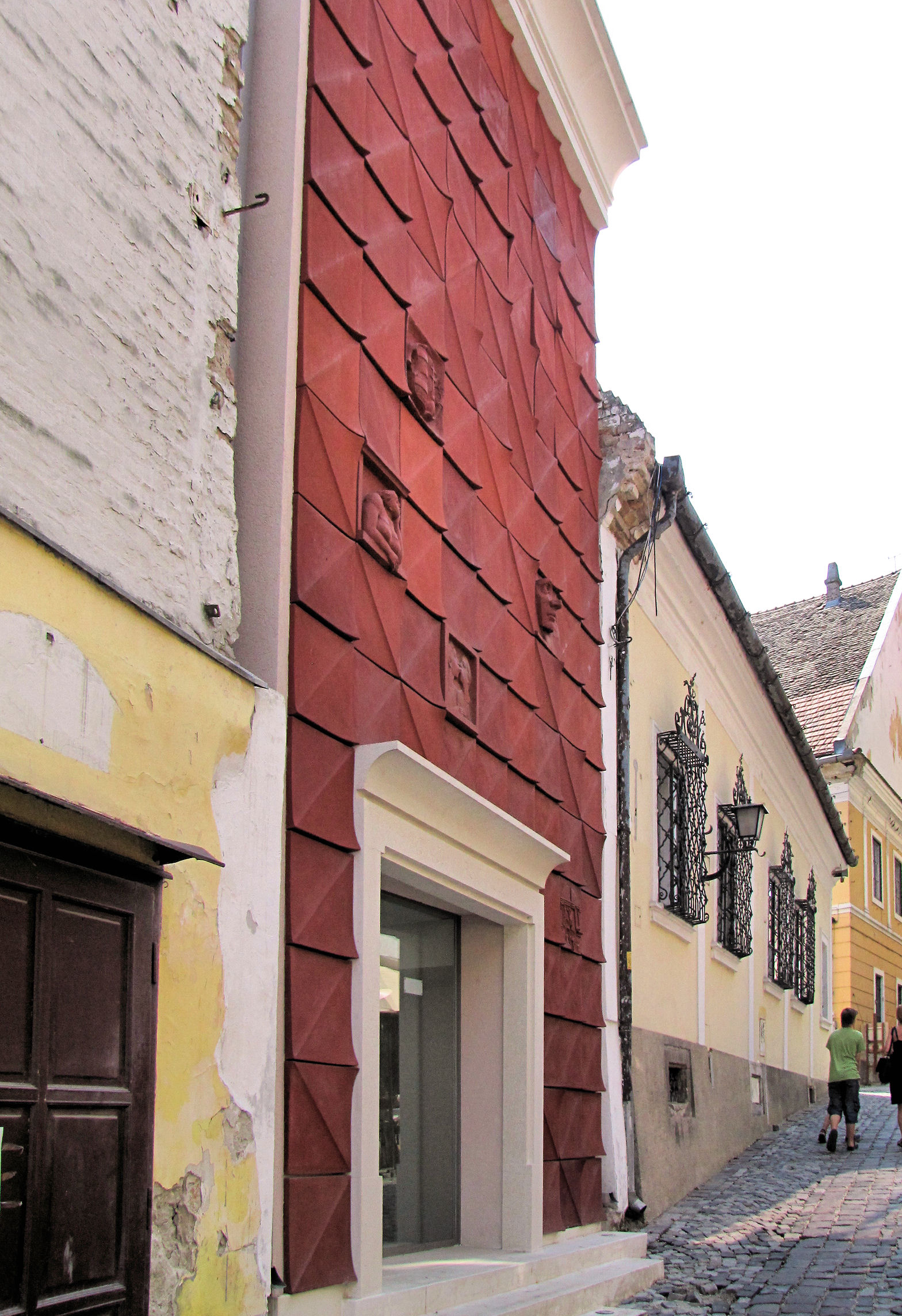 Margit Kovács Museum, Szentendre. The new addition (center), inaugurated in 2011 and the old museum building (right). Architect of the new wing: József Kocsis. Ceramics: Tamás Asszonyi, Róbert Csíkszentmihályi, Tamás Szabó, Zoltán Szentirmai.